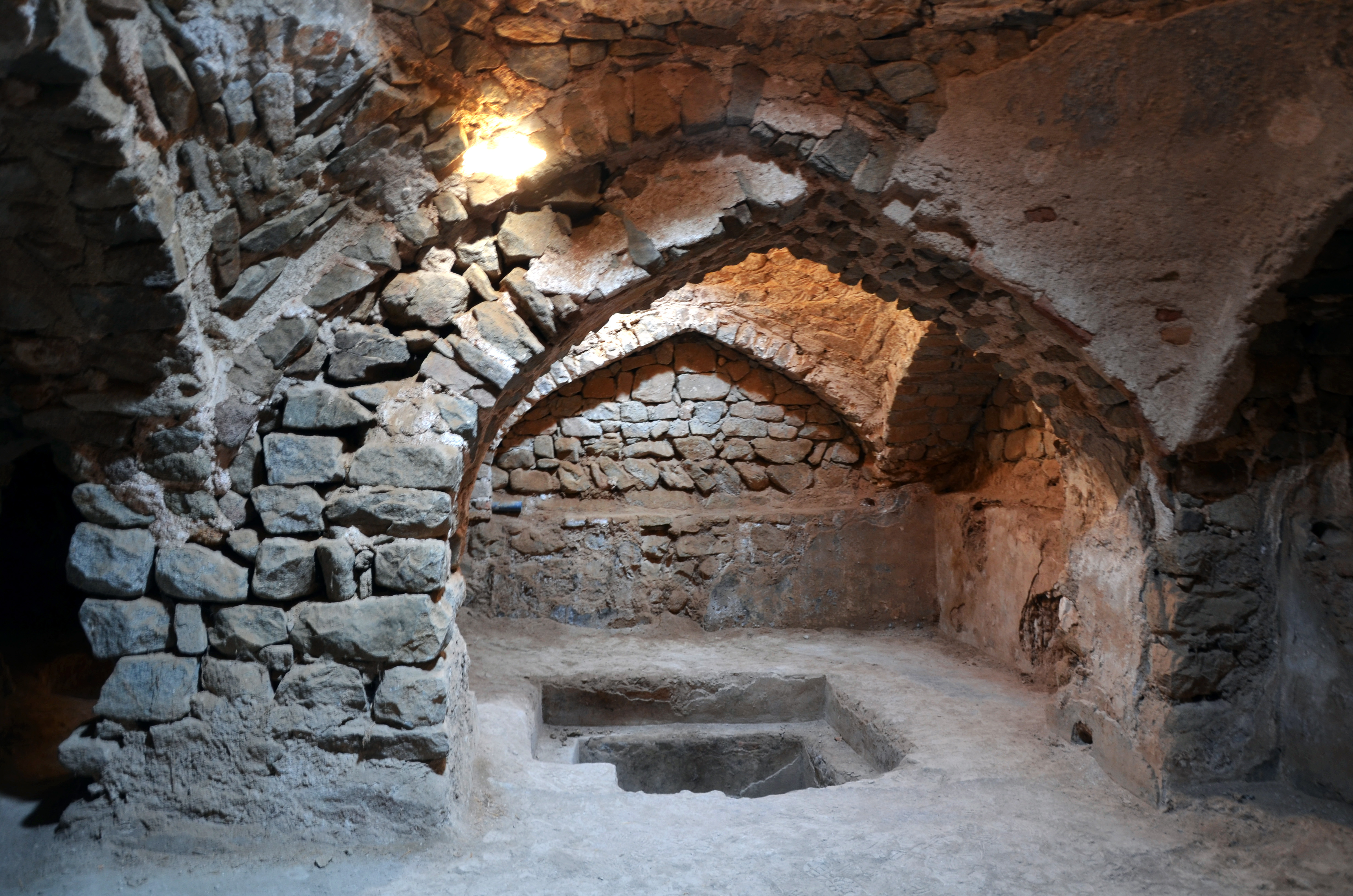 Aras - Kordasht - Old Bath